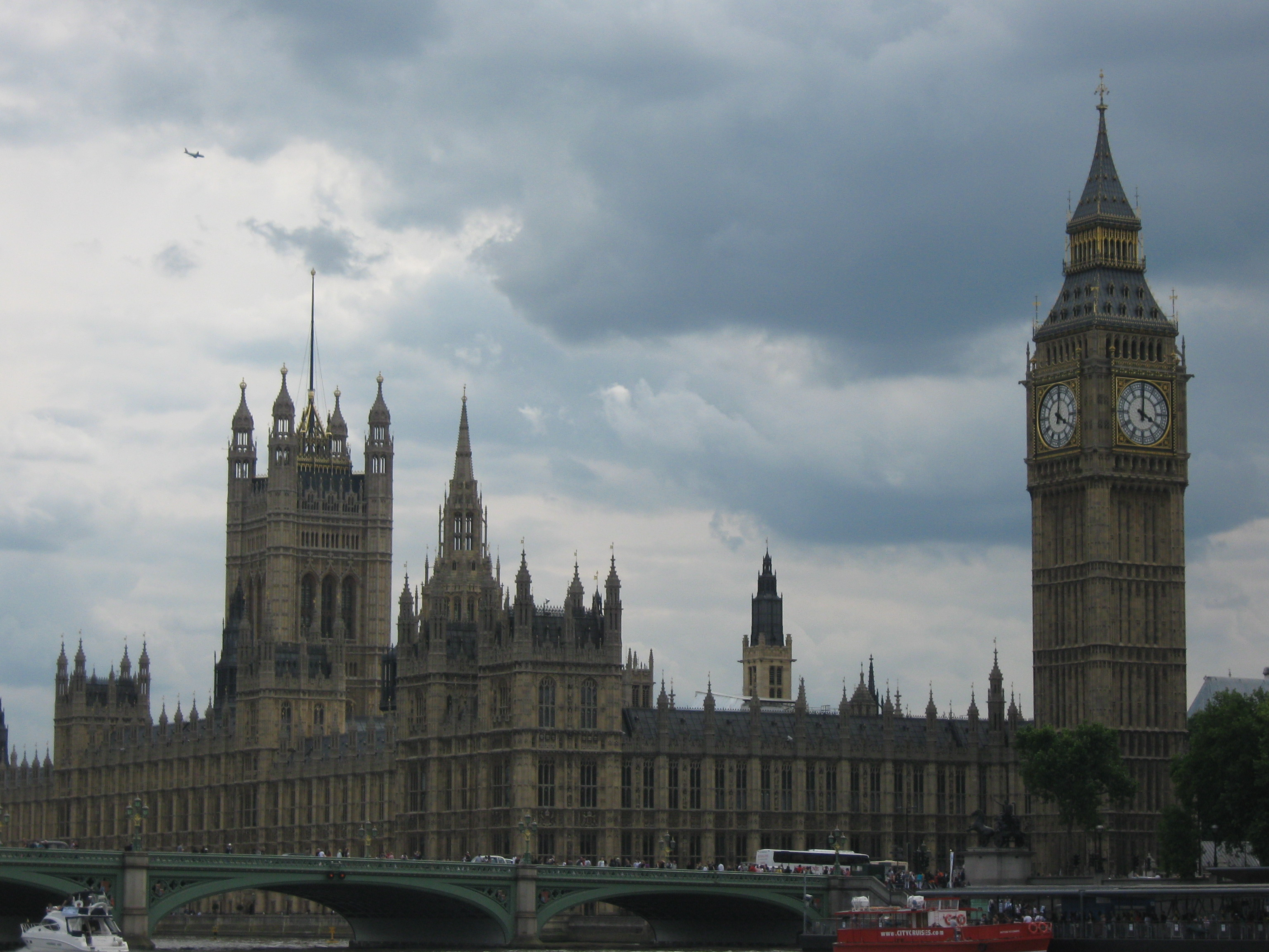 Westminister London